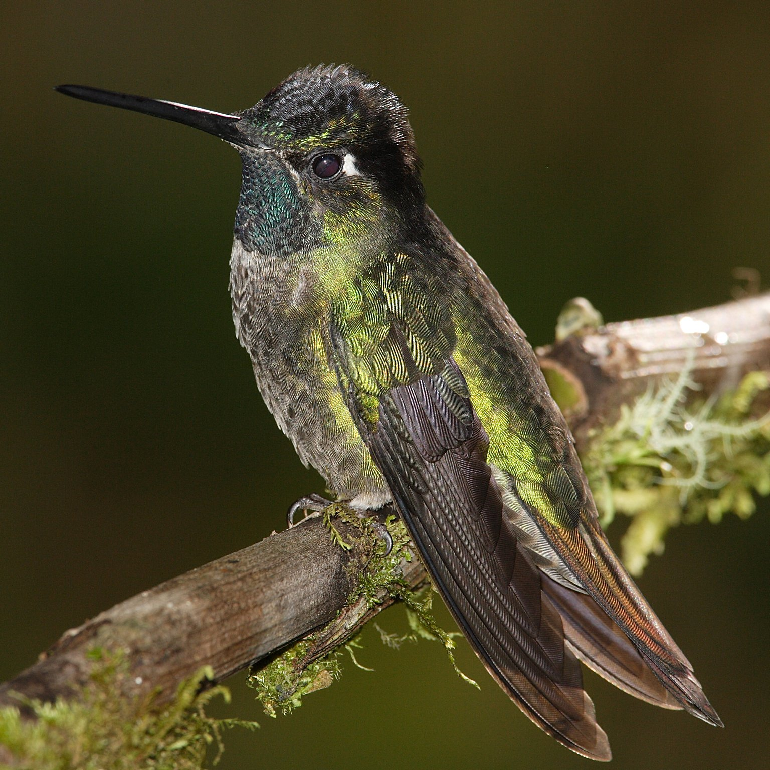 Magnificent Hummingbird -- Guadalupe, Panama.